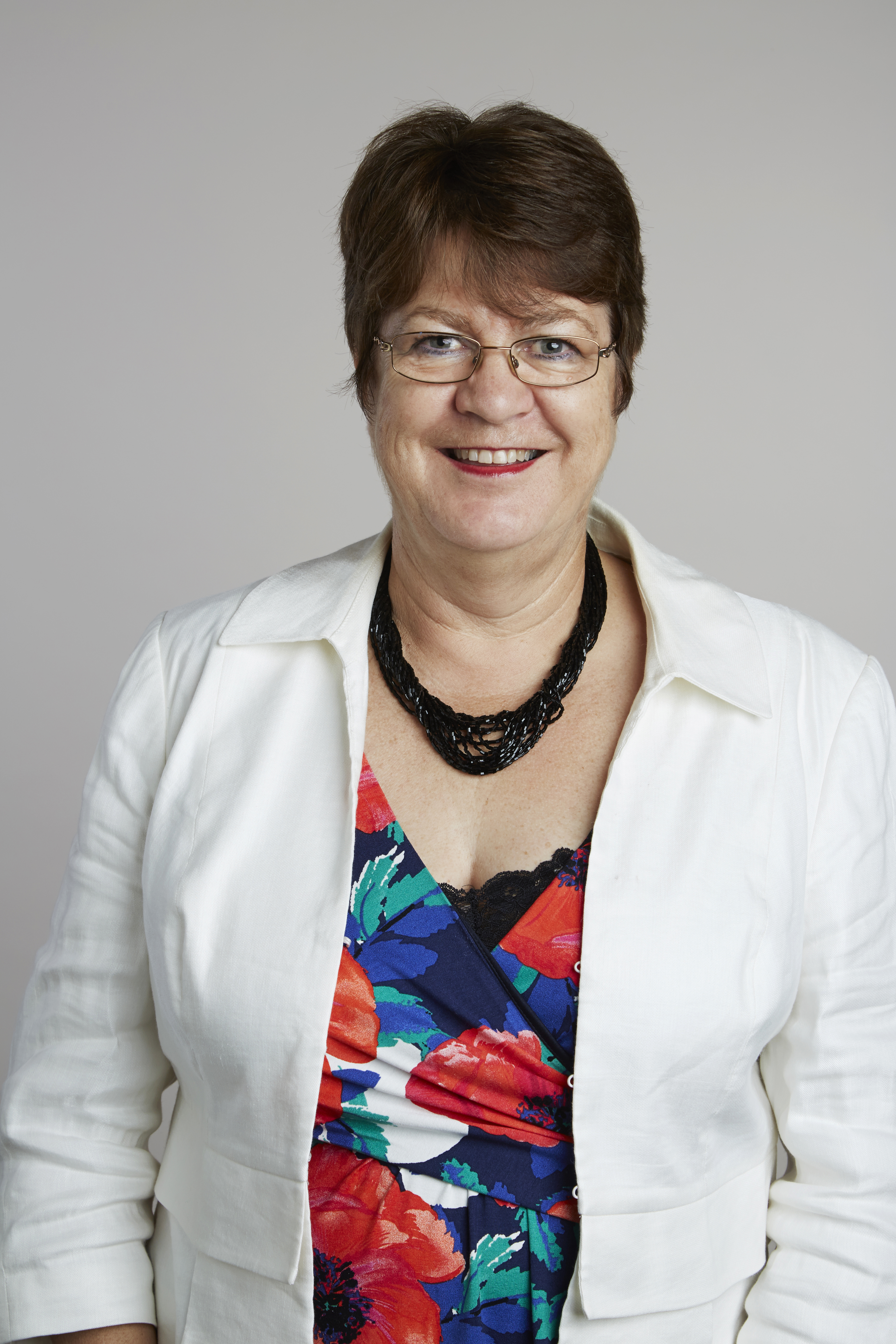 Jane Clarke is Professor of Molecular Biophysics in the Chemistry Department of the University of Cambridge. Her research is multidisciplinary, combining single molecule and ensemble biophysical techniques with protein engineering and simulations to investigate protein folding, misfolding and assembly. Her small research team includes chemists, biochemists and physicists. Jane Clarke’s career is somewhat unusual. After several years teaching science in comprehensive schools she started a PhD at the age of 40 with Professor Sir Alan Fersht in Cambridge. After a postdoctoral fellowship in protein NMR spectroscopy at the MRC Centre for Protein Engineering in Cambridge, she won a Welcome Trust Career Development Fellowship and joined Cambridge University in 1997. In her role as Deputy Head of the Chemistry Department in Cambridge, Professor Clarke became involved in mentoring, career development and leadership training for scientists at all stages in their careers. She is particularly interested to support women to stay in science. As a mother and grandmother she knows that it is possible to combine family life with a successful career. Attribution: The Royal Society